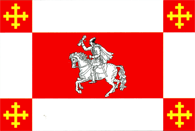 Flag of Rajon Călărași